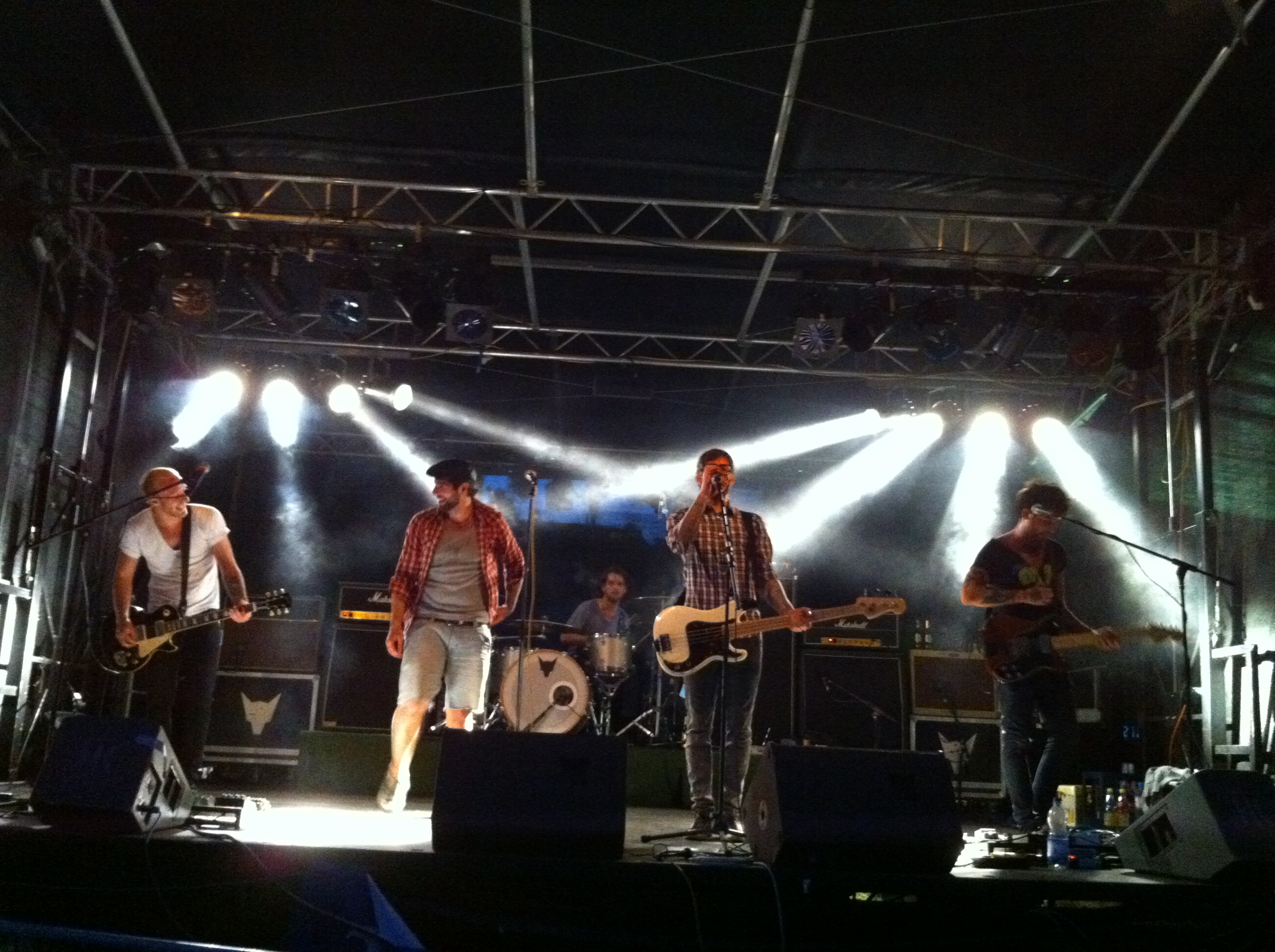 Eternal Tango performing at Uferrock 2010 in Pommern, Germany.